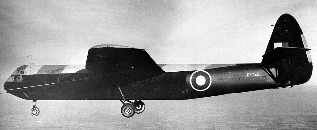 Aircraft Airspeed Horsa cropped version. According original file, "Crown Copyright expired"